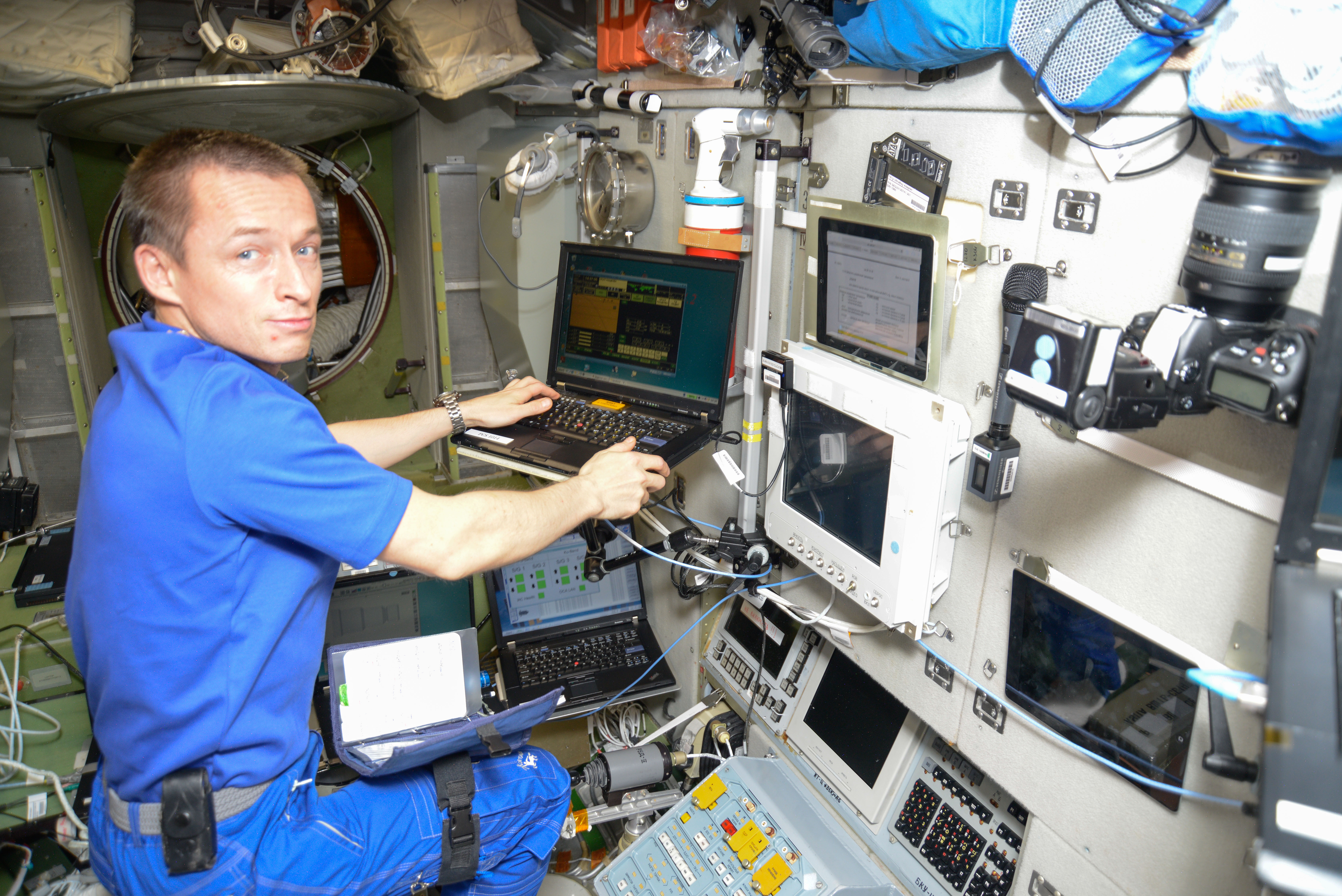 Russian cosmonaut Sergey Ryzhikov works inside the Zvezda Service Module aboard the International Space Station. Ryzhikov is a Flight Engineer for Expeditions 49/50 and is completing his first flight to space.